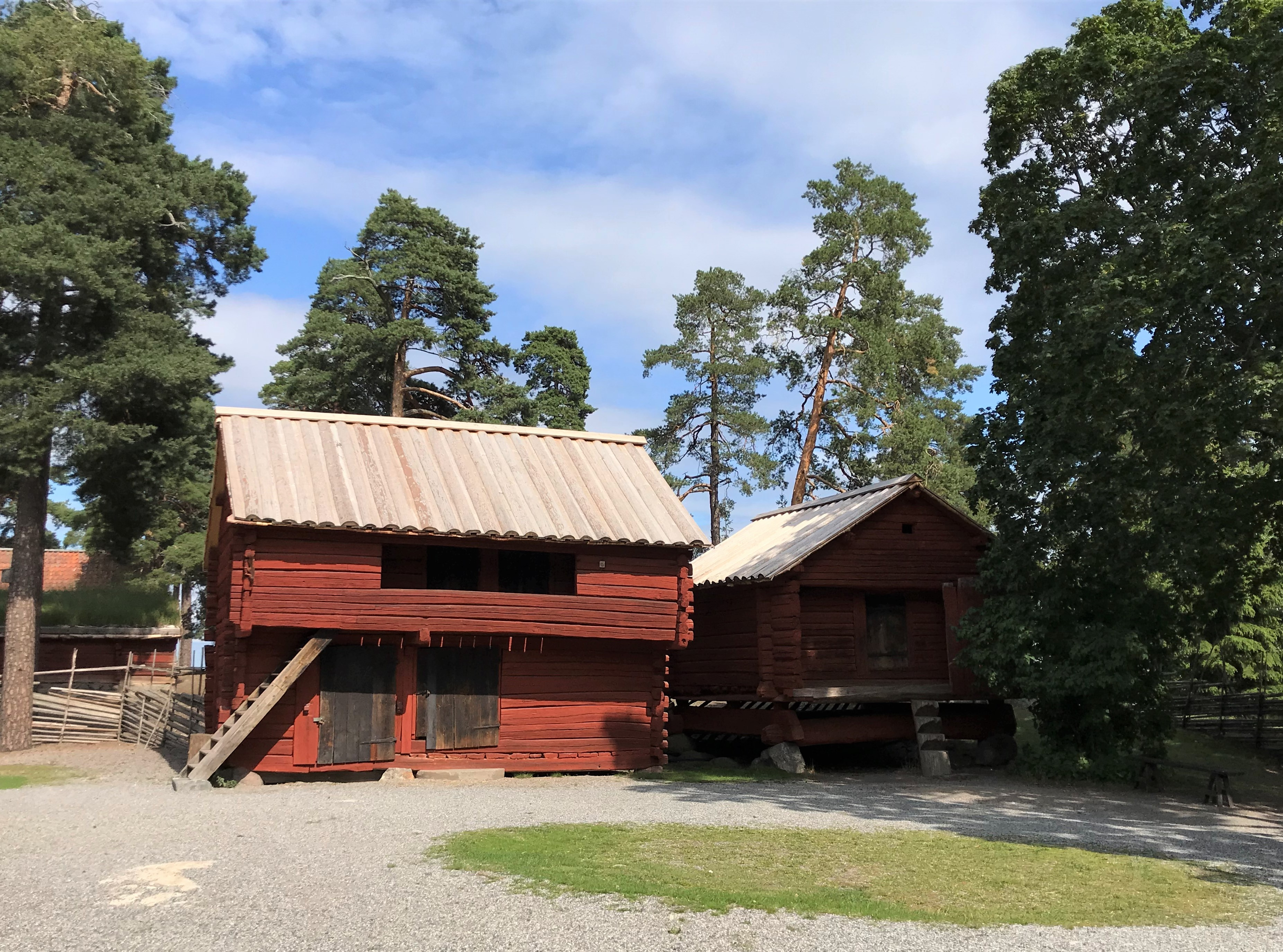 Granery (härbre) at the Torekällberget open air museum in Södertälje, next to Råbygården, on August 4, 2019.